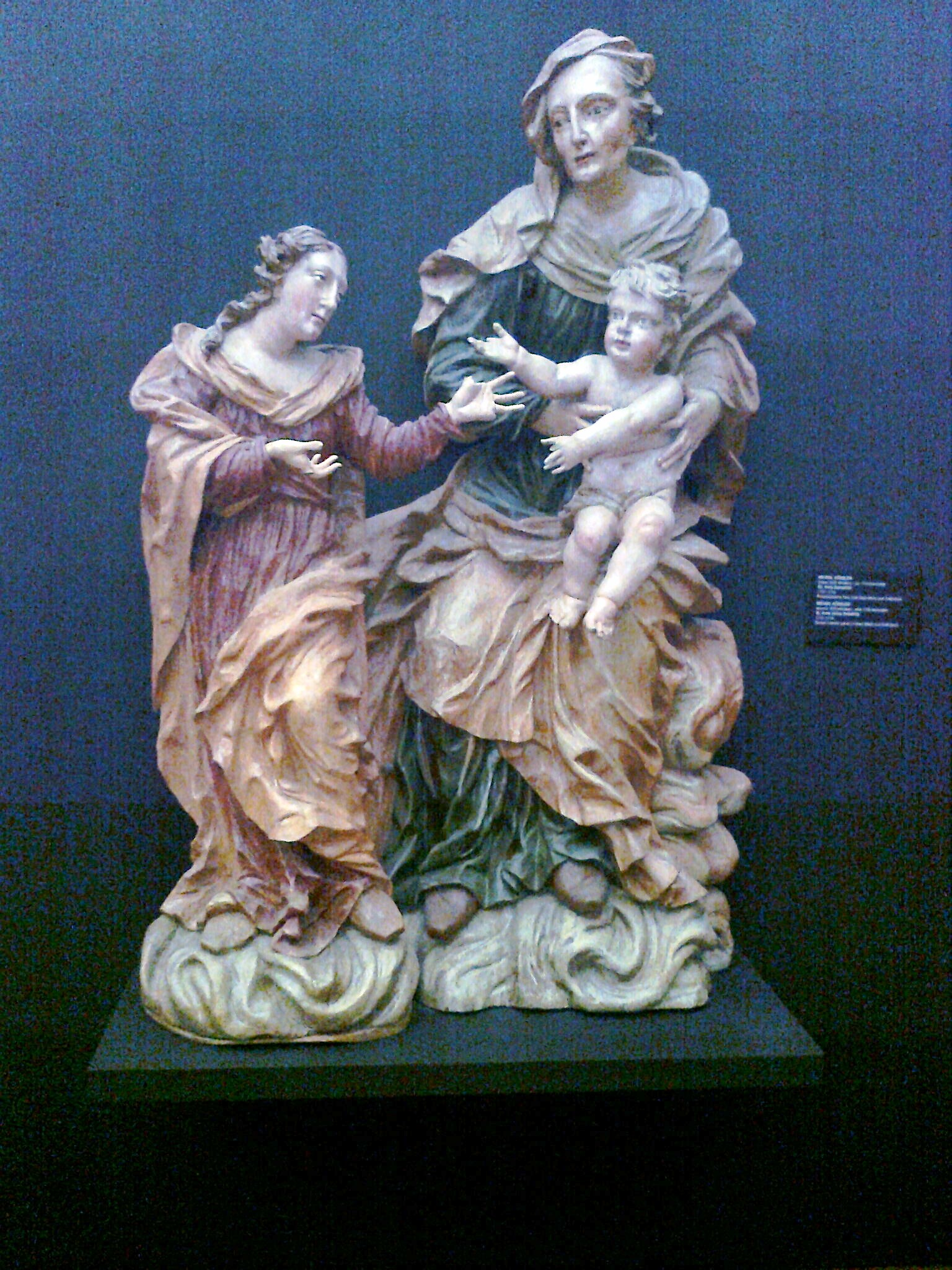 St. Anne